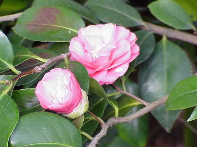 Species: Camellia japonica Family: Theaceae Image No. 3